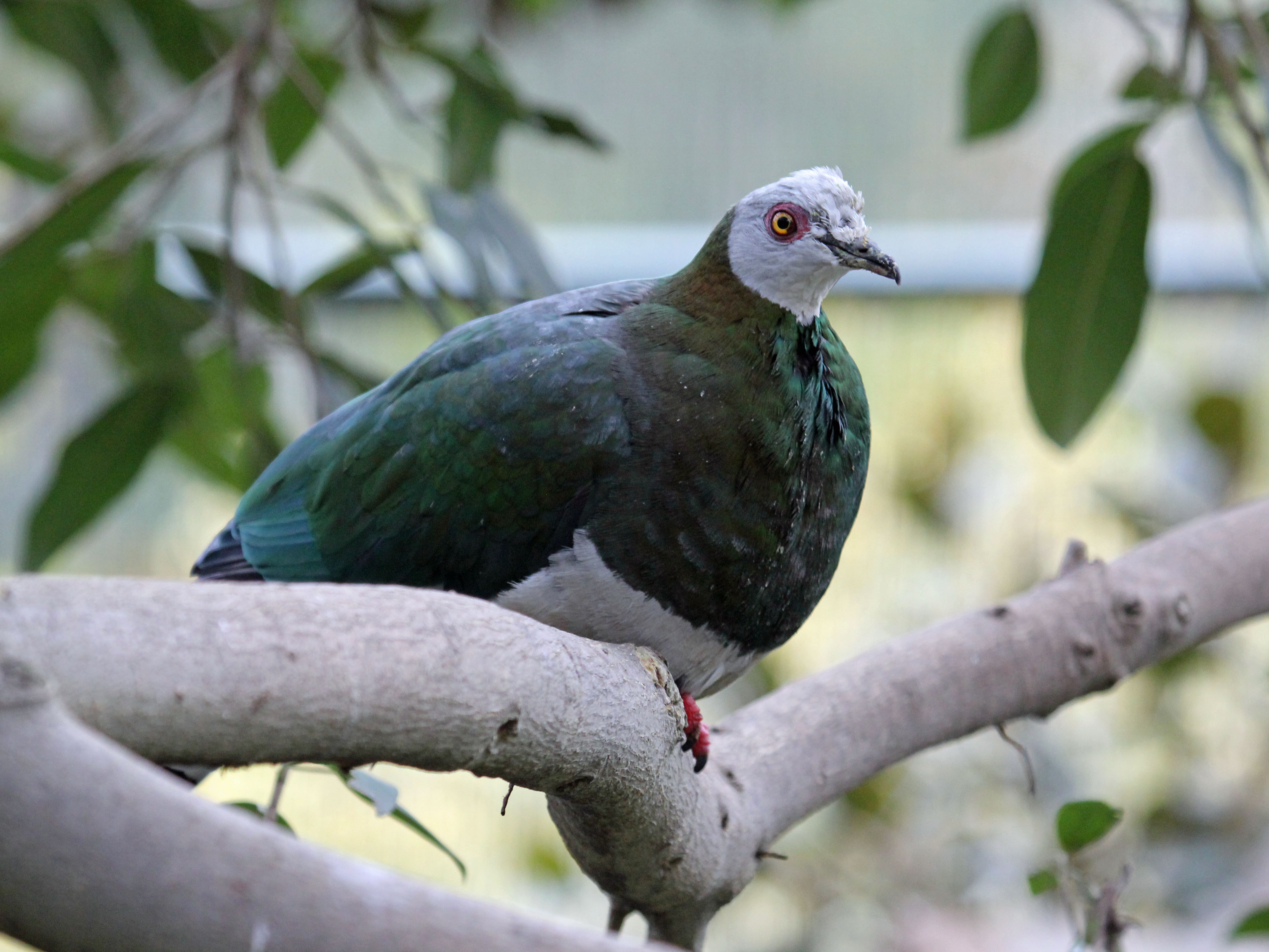 White-bellied Imperial Pigeon (Ducula forsteni) - San Diego Zoo